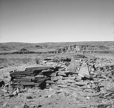 The Ruins of ǁKhauxaǃnas: View to the South East: With Protection Wall in the Background